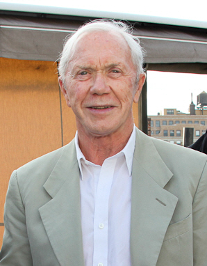 Peter Brown John Gapper Book Party, June 26 2012: New York